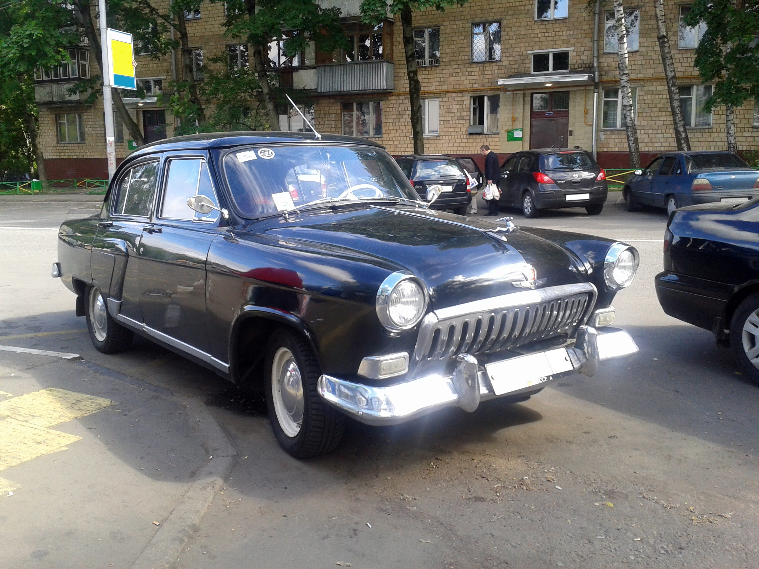 GAZ-M-21 second series (Luxery).